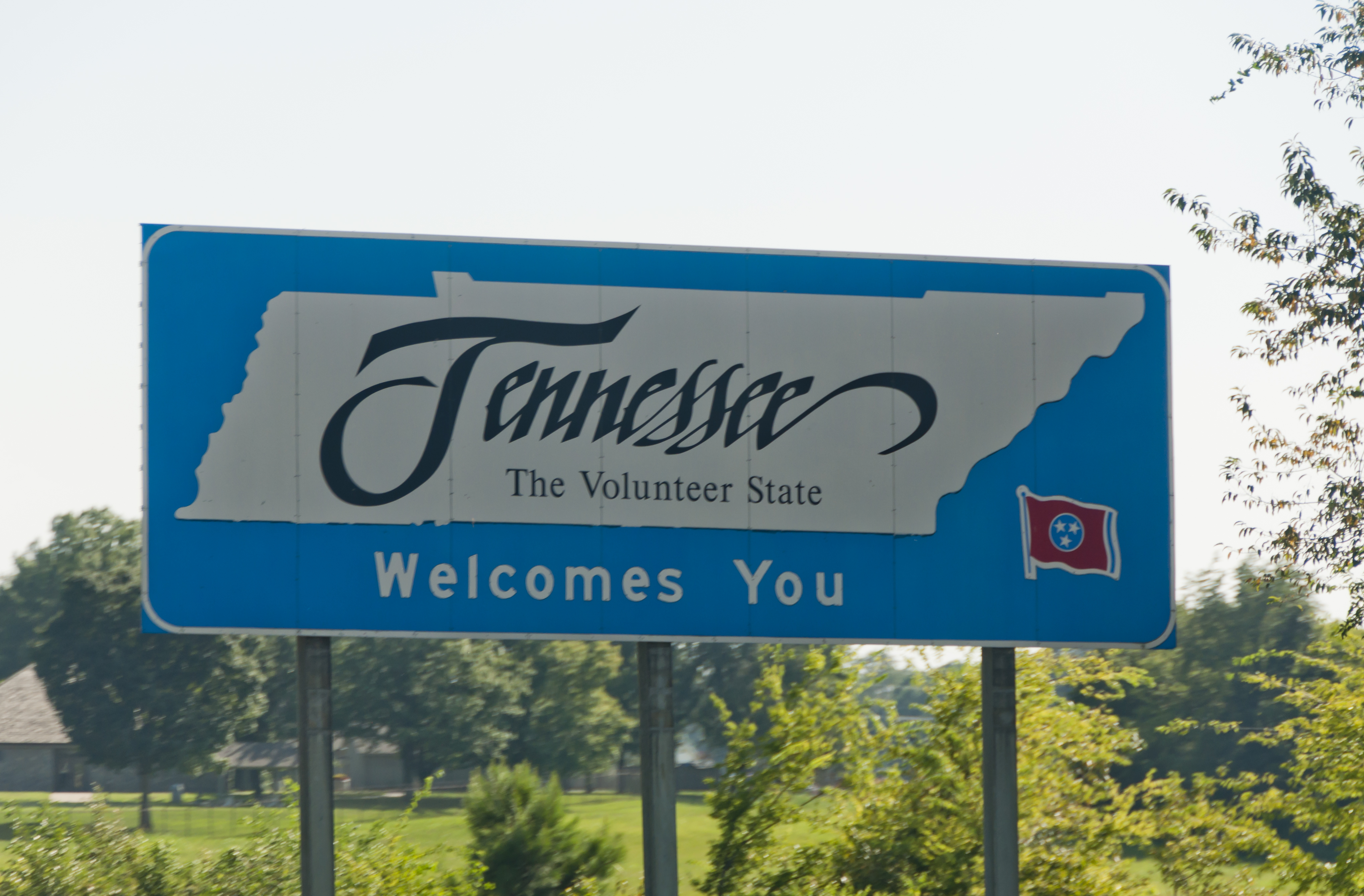 "Tennessee Welcomes You" on Interstate 65 Southbound crossing from Kentucky to Tennessee.